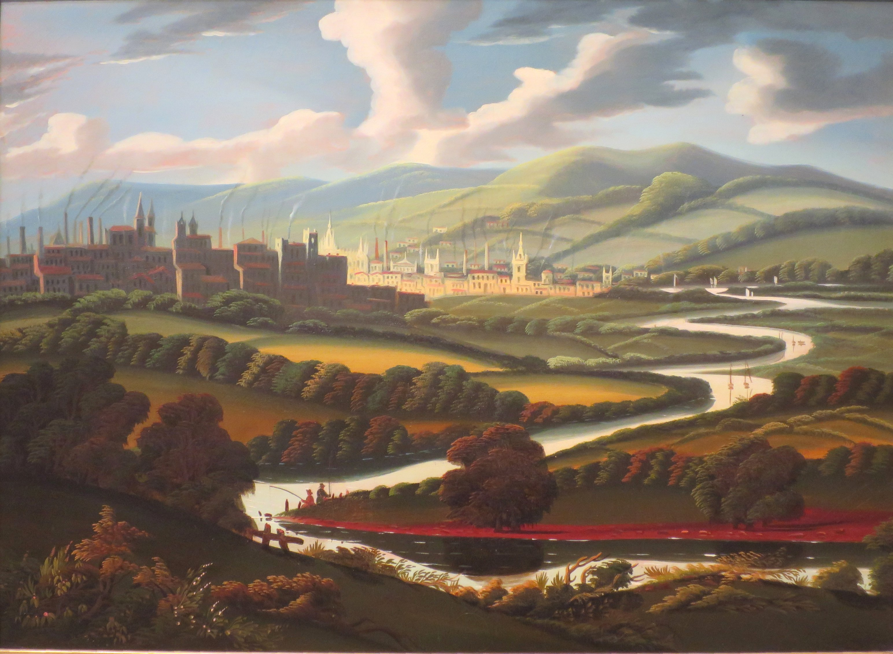 View of Springfield, Massachusetts on the Connecticut River by Thomas Chambers, c. 1840-45, oil on canvas, private collection, photographed while on loan to the Metropolitan Museum of Art